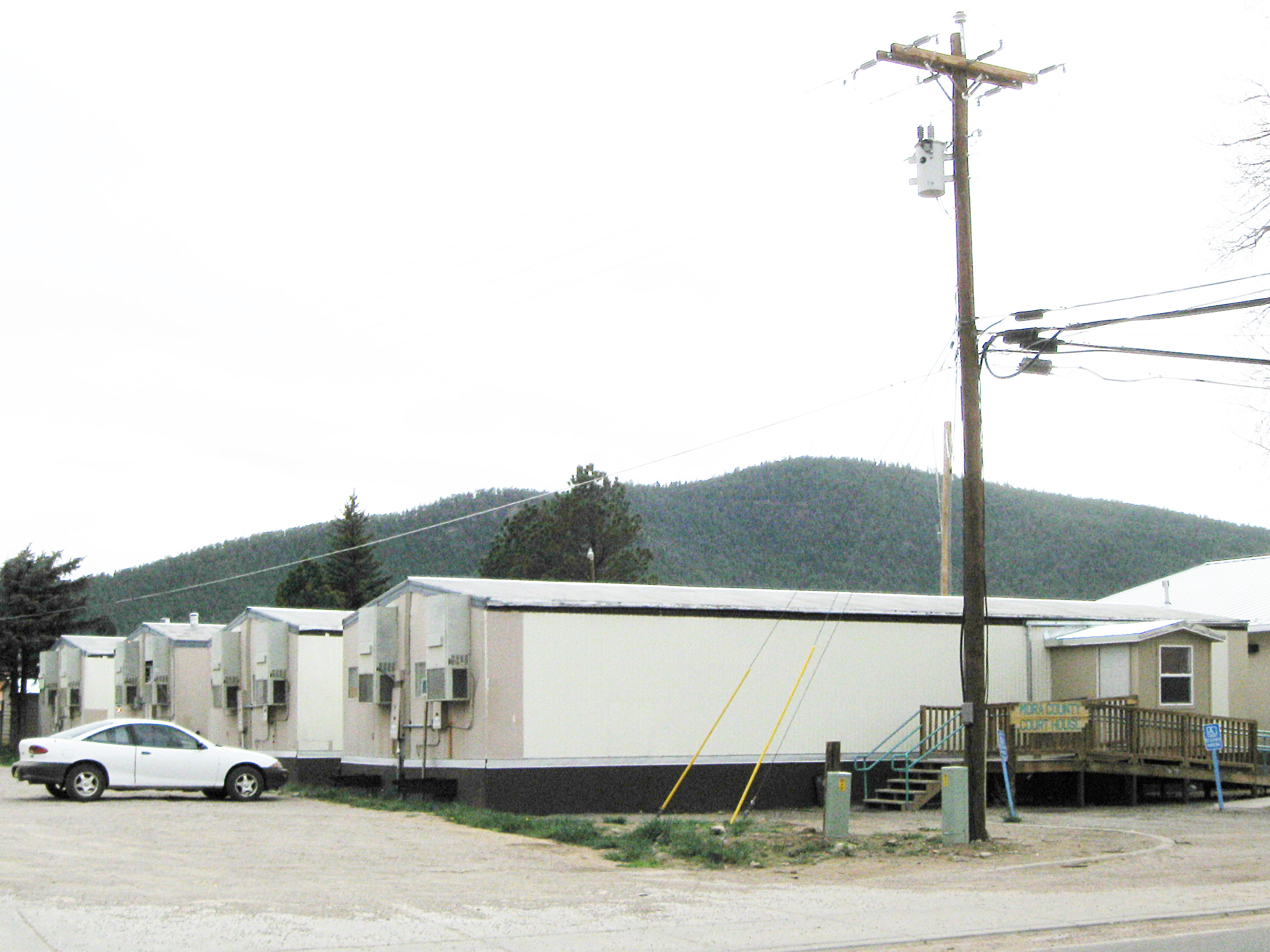 Former Mora County (New Mexico) Courthouse temporary structures, located south of New Mexico Highway 518 in Mora, New Mexico before construction of current courthouse